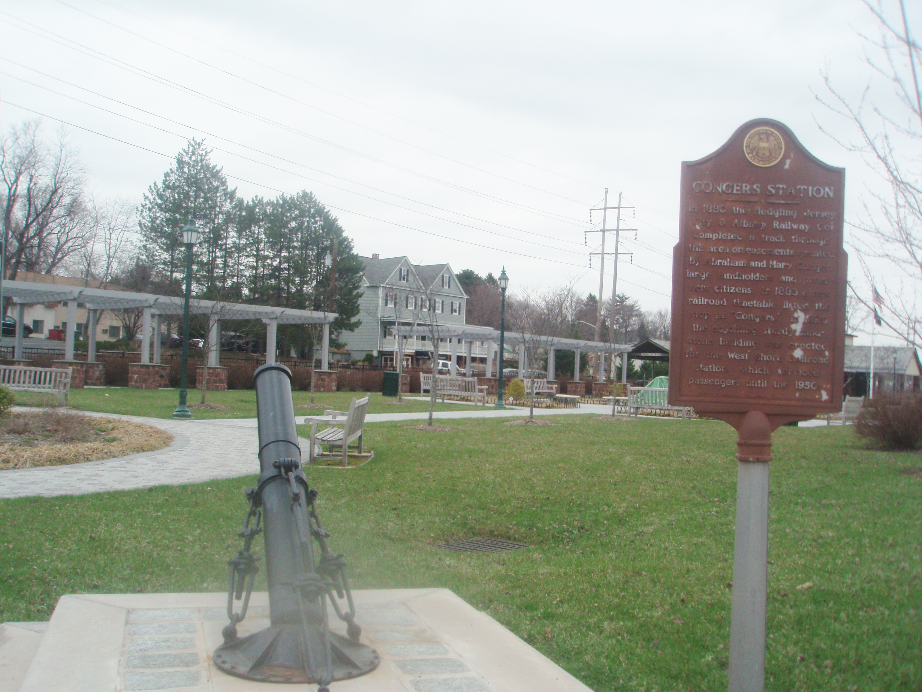 Historic District in Congers, Rockland County, New York